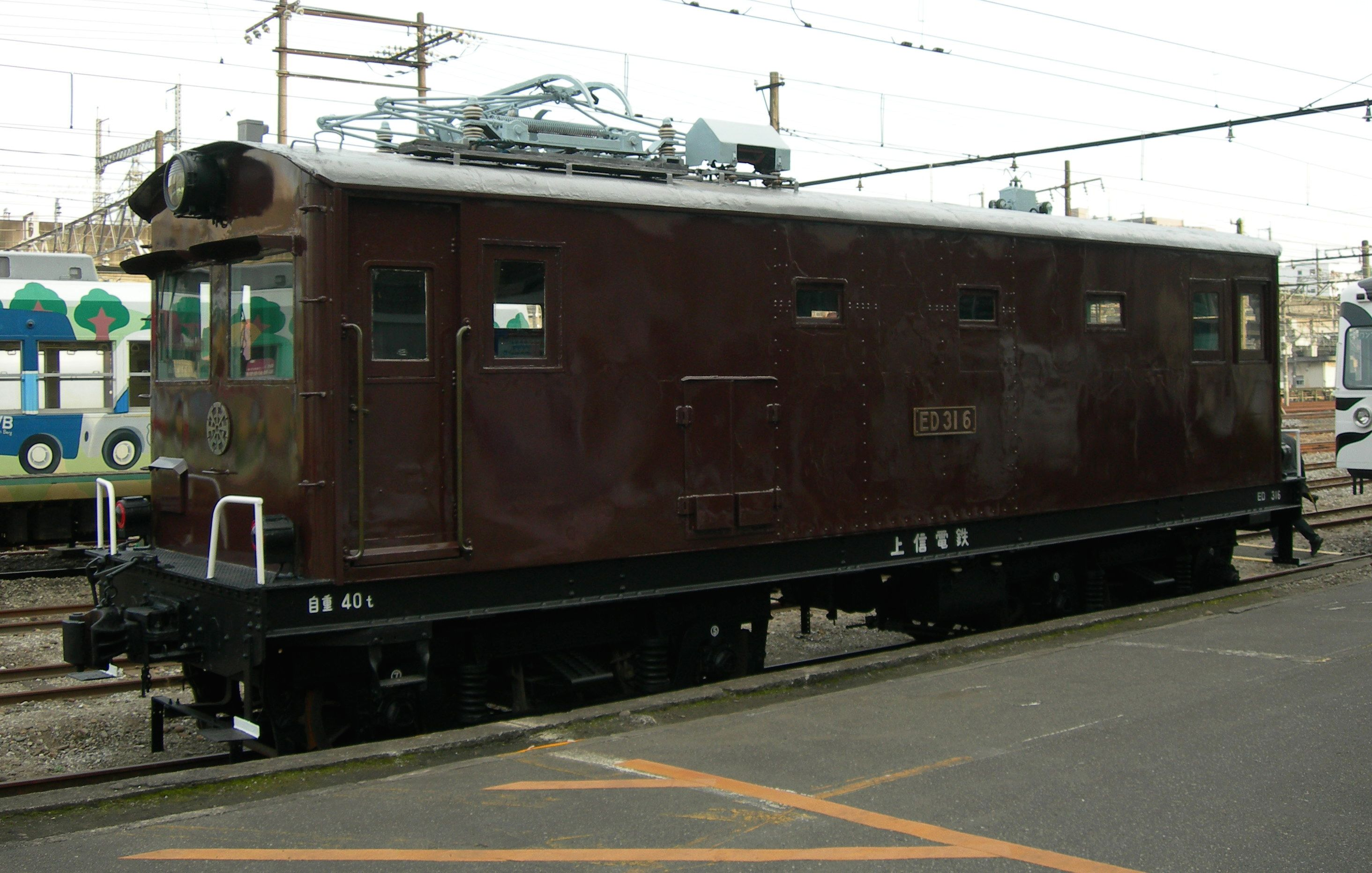 Joshin Electric Railway Class ED31 electric locomotive ED31 6